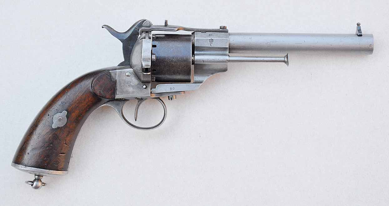 Norsk Lefaucheux revolver M/1864/98 produsert ved Kongsberg Våpenfabrikk